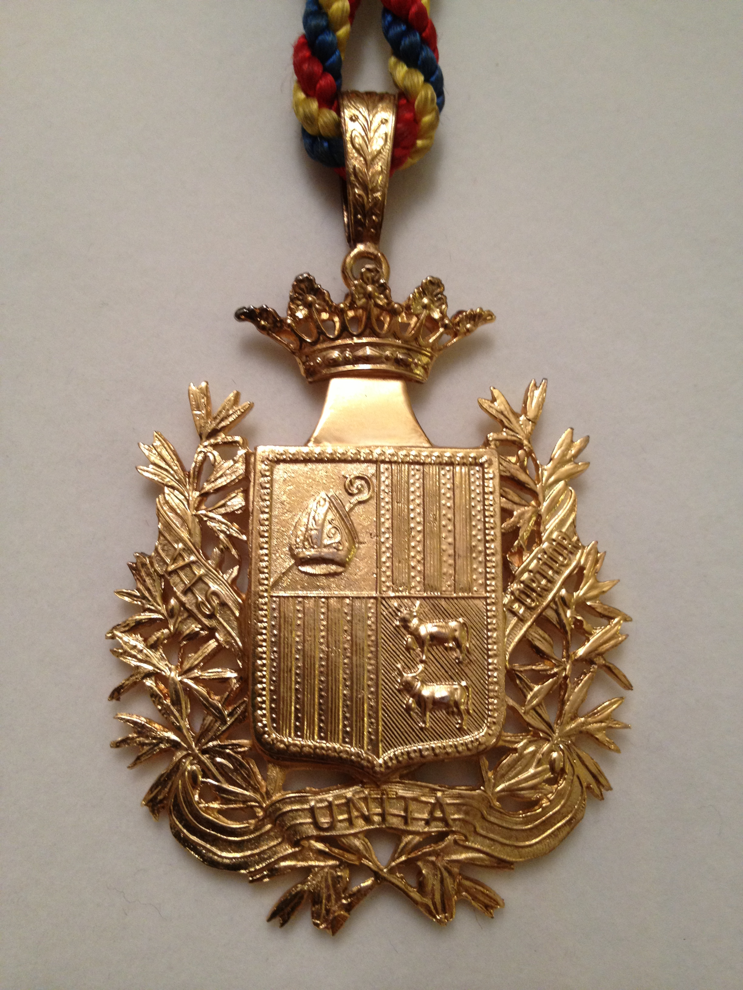 Medalla de Conseller General del Principat d'Andorra